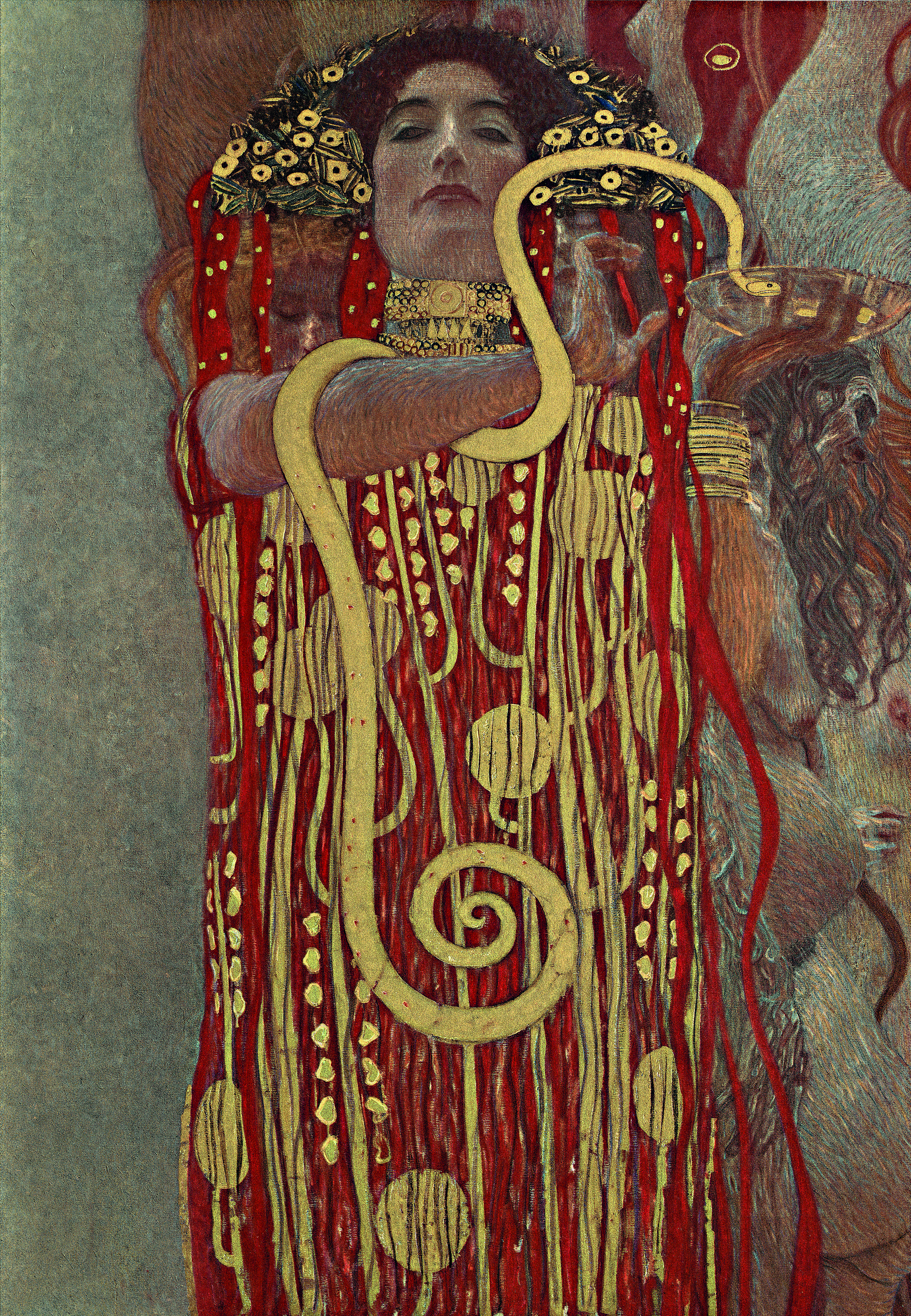 Have this copy in oil,but not signed.Any value ?